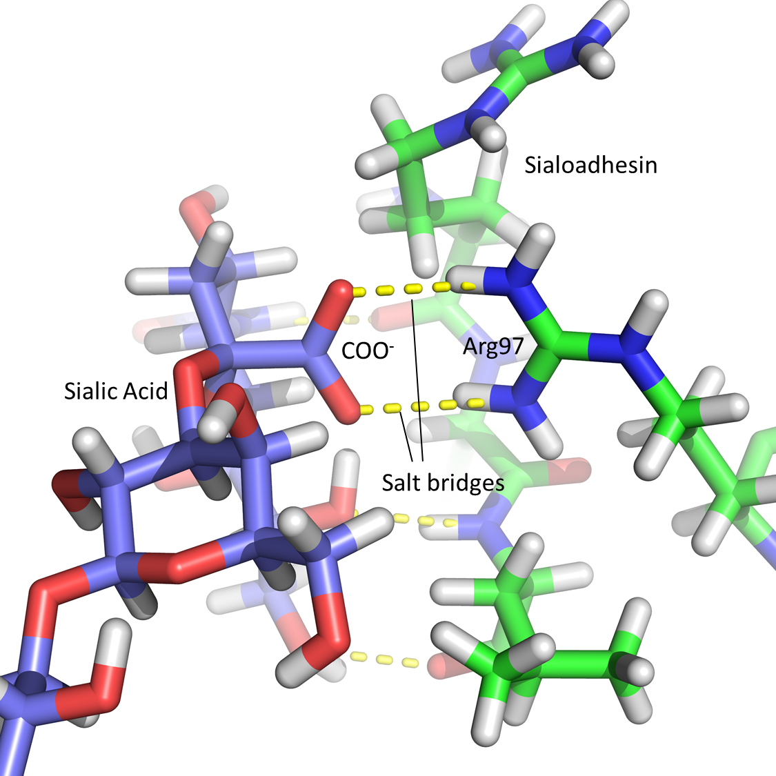 Sialoadhesin binding site of the Variable Immunoglobulin domain in complex with a sialylated glycan. Focuses on the conserved salt bridge that is found in all siglecs, with a key, conserved arginine residue forming an ionic interaction with the sialic acid carboxyl group (COO-). The glycan carbons are purple and the protein carbons are green. Oxygens are red, Nitrogens are blue and Hydrogens are white. Other interactions can also be seen, but the main focus is the salt bridge. Structure drawn from PDB ID: 1QFO AP May, Robinson RC, Vinson M, Crocker PR, Jones EY (1998) Crystal structure of the N-terminal domain of sialoadhesin in complex with 3' sialyllactose at 1.85 A resolution. Mol Cell. 1(5):719-728